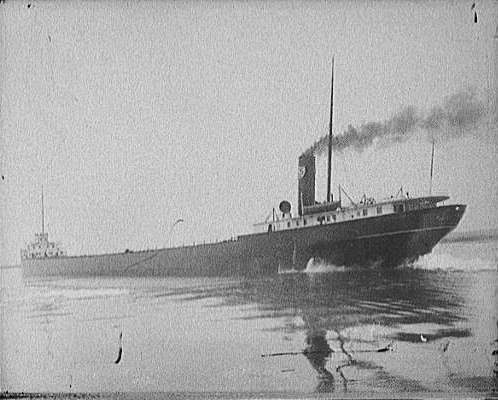 Title: [Freighter Daniel J. Morrell under steam] Related Names: Detroit Publishing Co. publisher Date Created/Published: [between 1900 and 1920] Medium: 1 negative : glass ; 8 x 10 in. Part of: Detroit Publishing Company Photograph Collection Reproduction Number: LC-D41-96 (b&w glass neg.) Call Number: LC-D41-96 [P&P] Repository: Library of Congress Prints and Photographs Division Washington, D.C. 20540 USA Notes: Title from jacket. No Detroit Publishing Co. no. Gift; State Historical Society of Colorado; 1949.